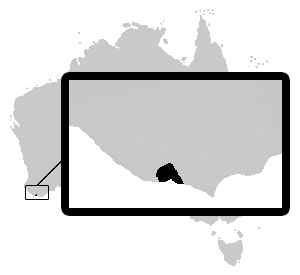 The distribution of Spicospina.